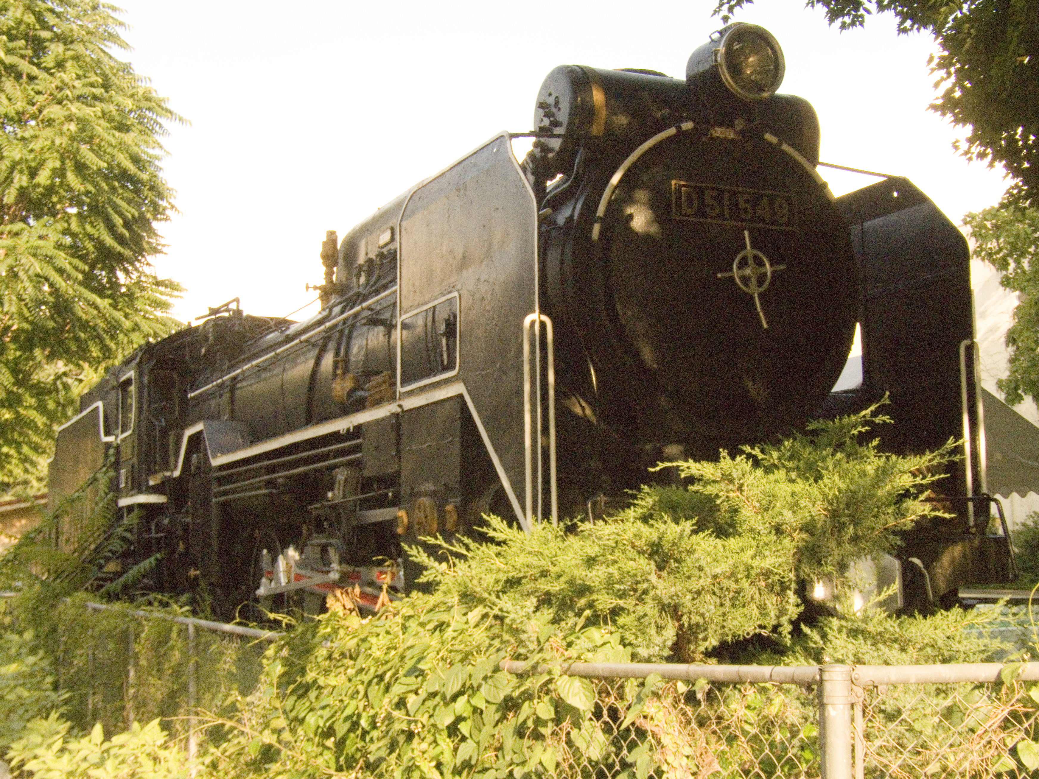 JNR Steam Locomotive Class D51 no.549 in Nagano city, Nagano prefecture, Japan